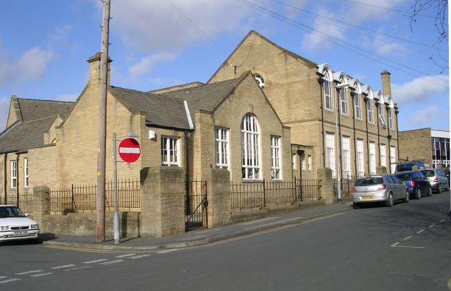 Back of Heckmondwike Grammar School - Church Street